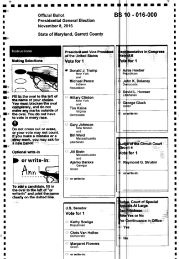 Report on ballot scanners in Maryland in 2016 showed that dirt or scratches on sensors created spurious black lines on some ballots, which appeared to be a vote for each candidate the line went past, thus voting for too many candidates and disenfranchising those voters.